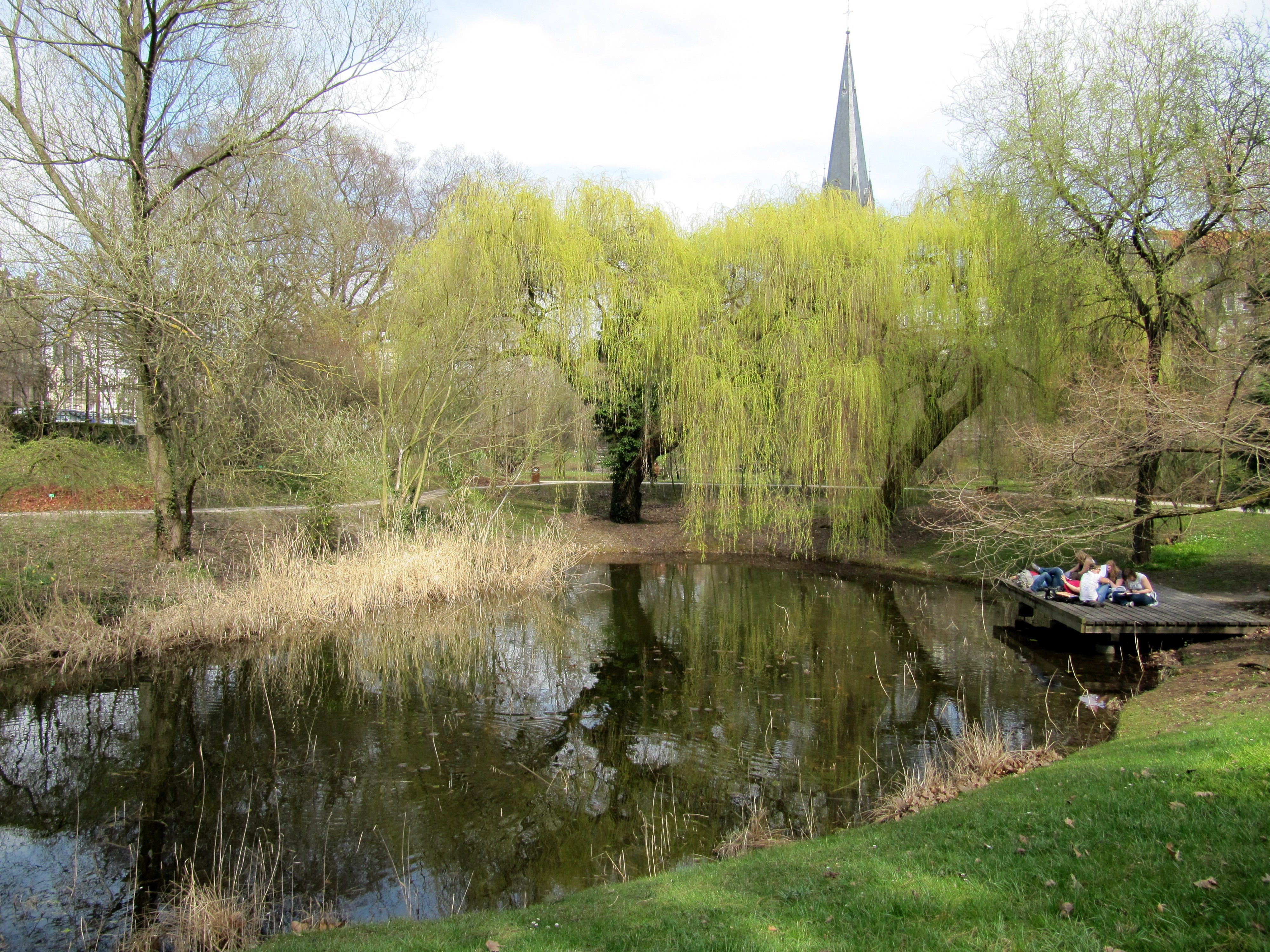 Pond of the botanical garden of Strasbourg. The spire of Église Saint-Maurice can be seen in the background, above the treetops.